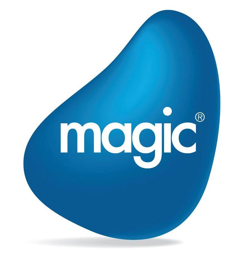 Magic Software Enterprises